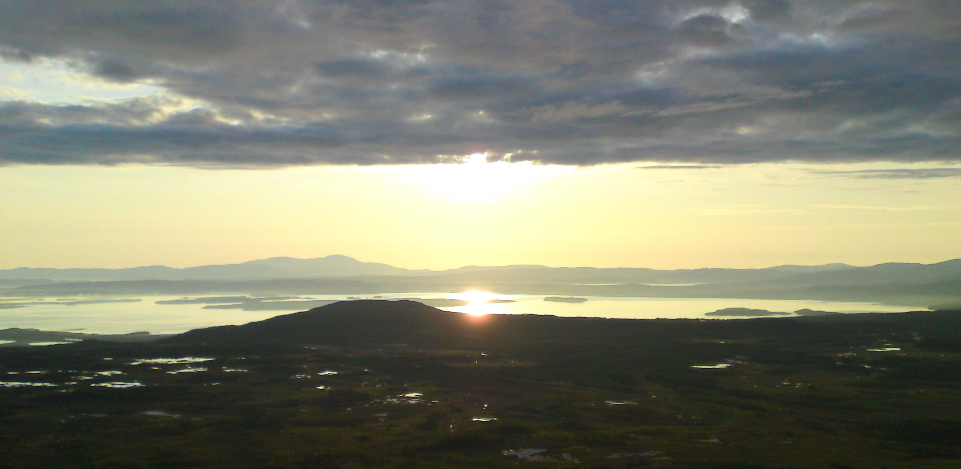 The rising Sun reflected on Lake Ånnsjön, Jämtland, Sweden.